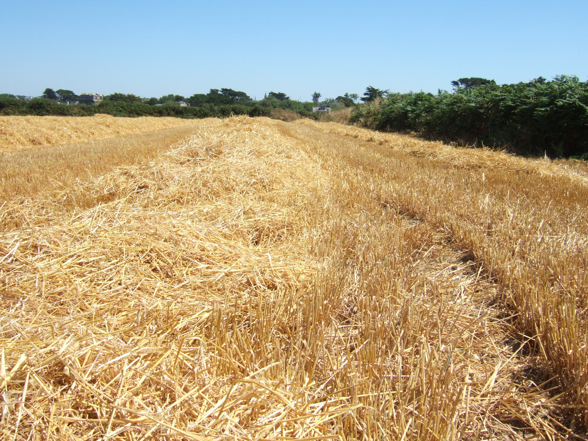 Straw in France.